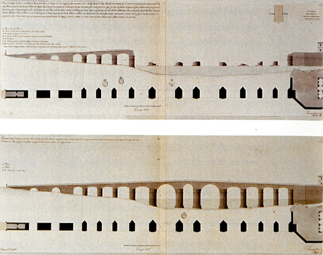 Elevation and ground plan of the Roman Alconétar Bridge in Cáceres Province, Spain, according to Fernando Rodríguez from November 1797